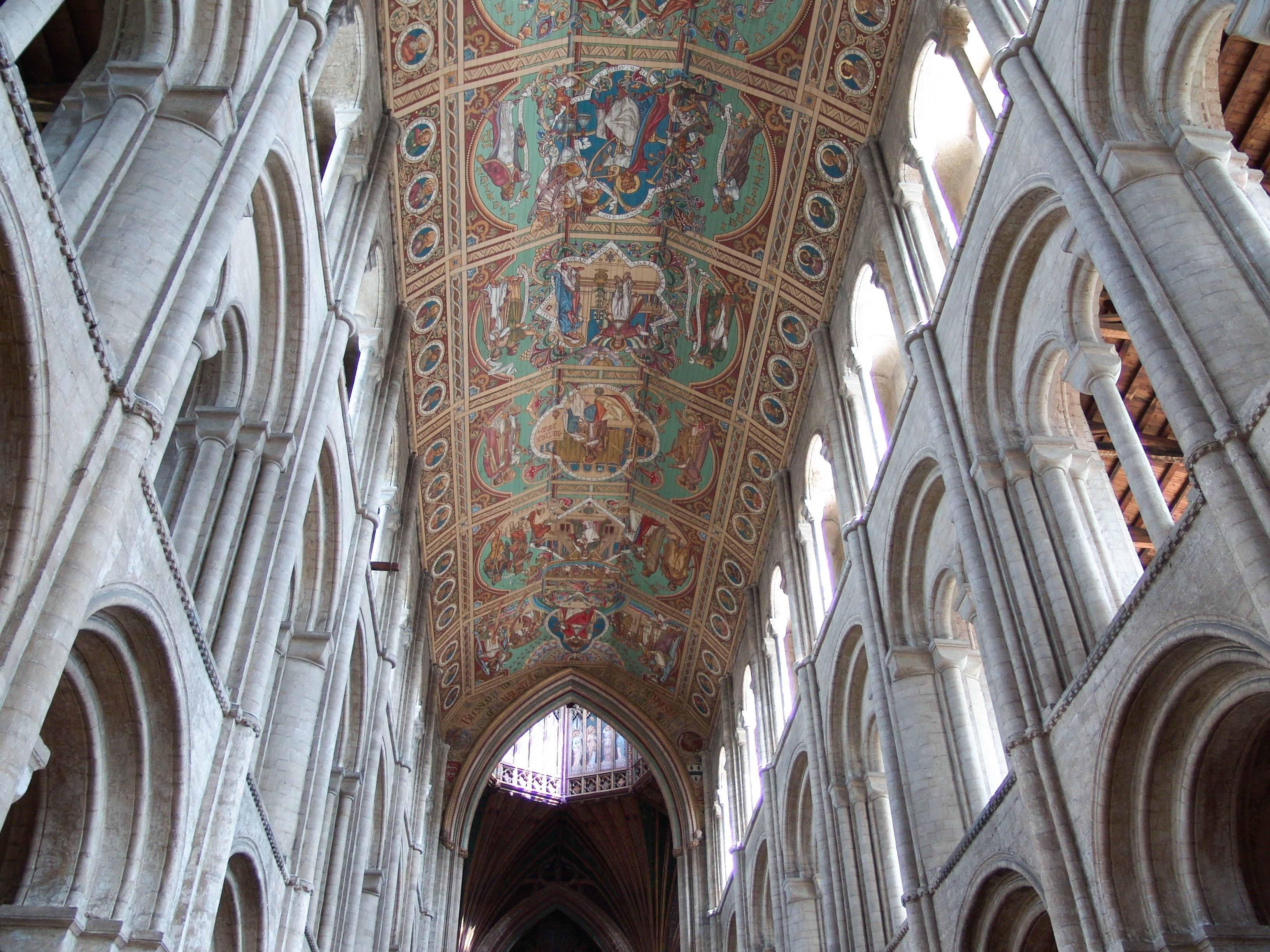 Painted wooden ceiling of Ely Cathedral, Cambridgeshire